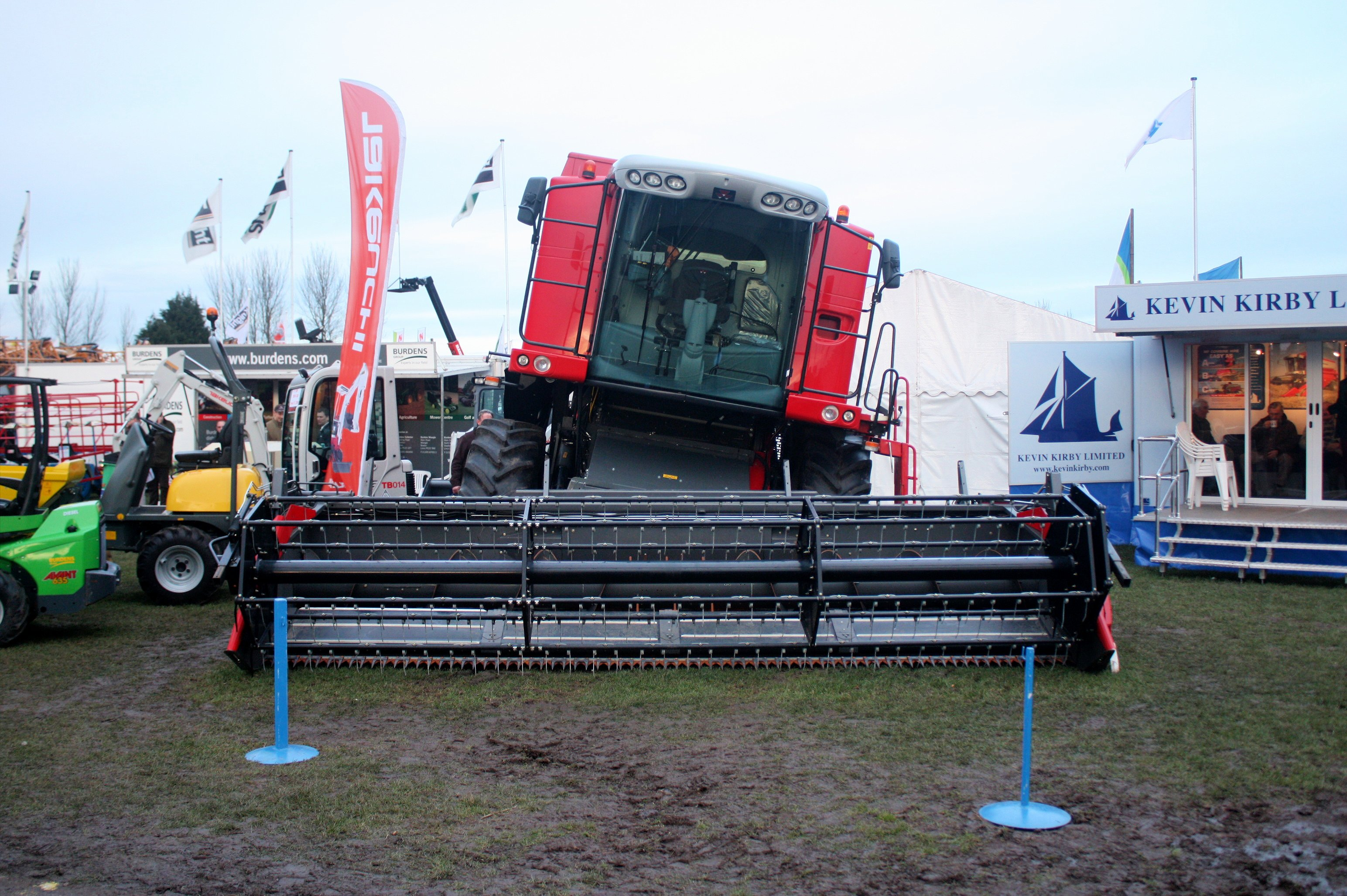 Massey Ferguson 7260 AL-4 Beta combine harvester fitted with the hillside levelling option at the LAMMA show (Lincolnshire Agricultural Machinery Manufacturers Association Show) in 2009, England